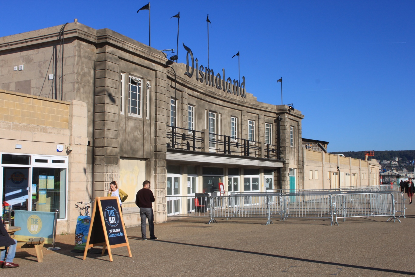 For a few weeks during the summer of 2015 the old Tropica open air swimming pool at Weston-super-Mare became the Dismaland 'bemusement park'.